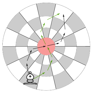 A diagram of the possible movements of a bishop in diplomat chess